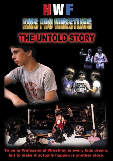 This is the front cover of the DVD titled NWF Kids Pro Wrestling: The Untold Story.